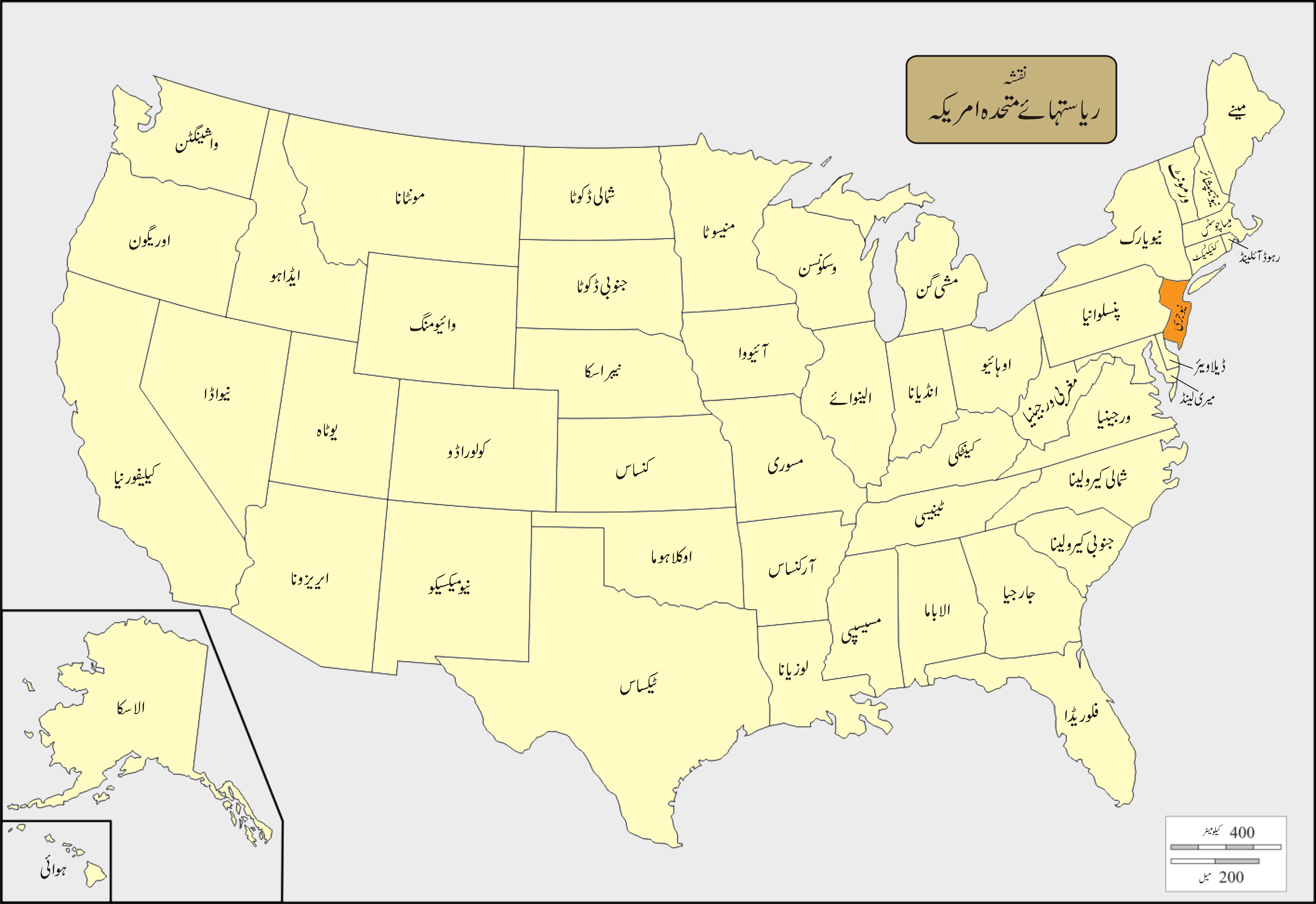 USA Names New Jersey